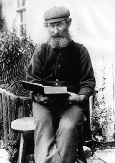 Edward Faragher, also known as Ned Beg Hom Ruy (and Edward Farquhar)